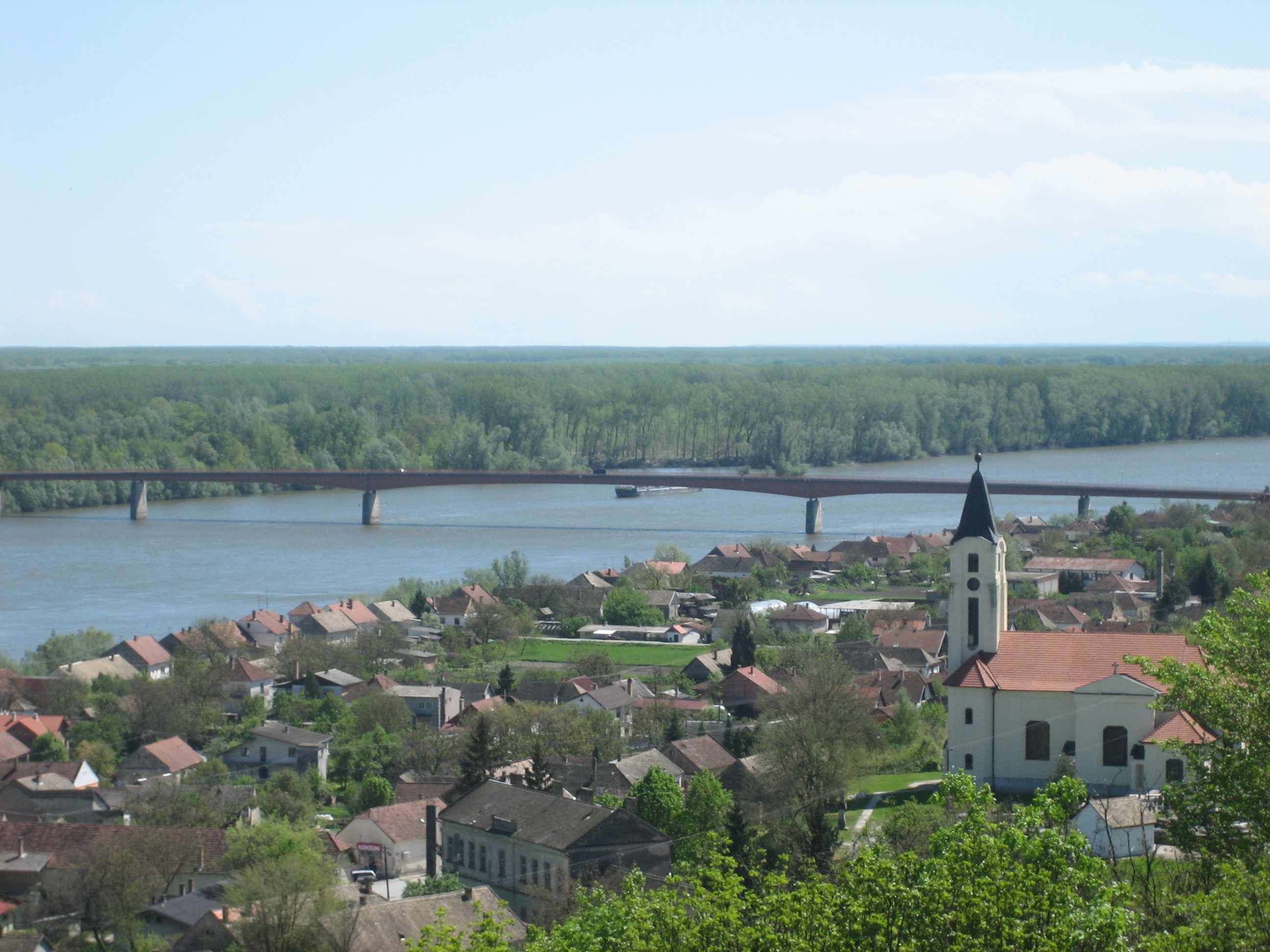 Batina (Croatia), view towards the Batina bridge on Danube, between Croatia and Serbia/ Batina, pogled na Batinski most na Dunavu.